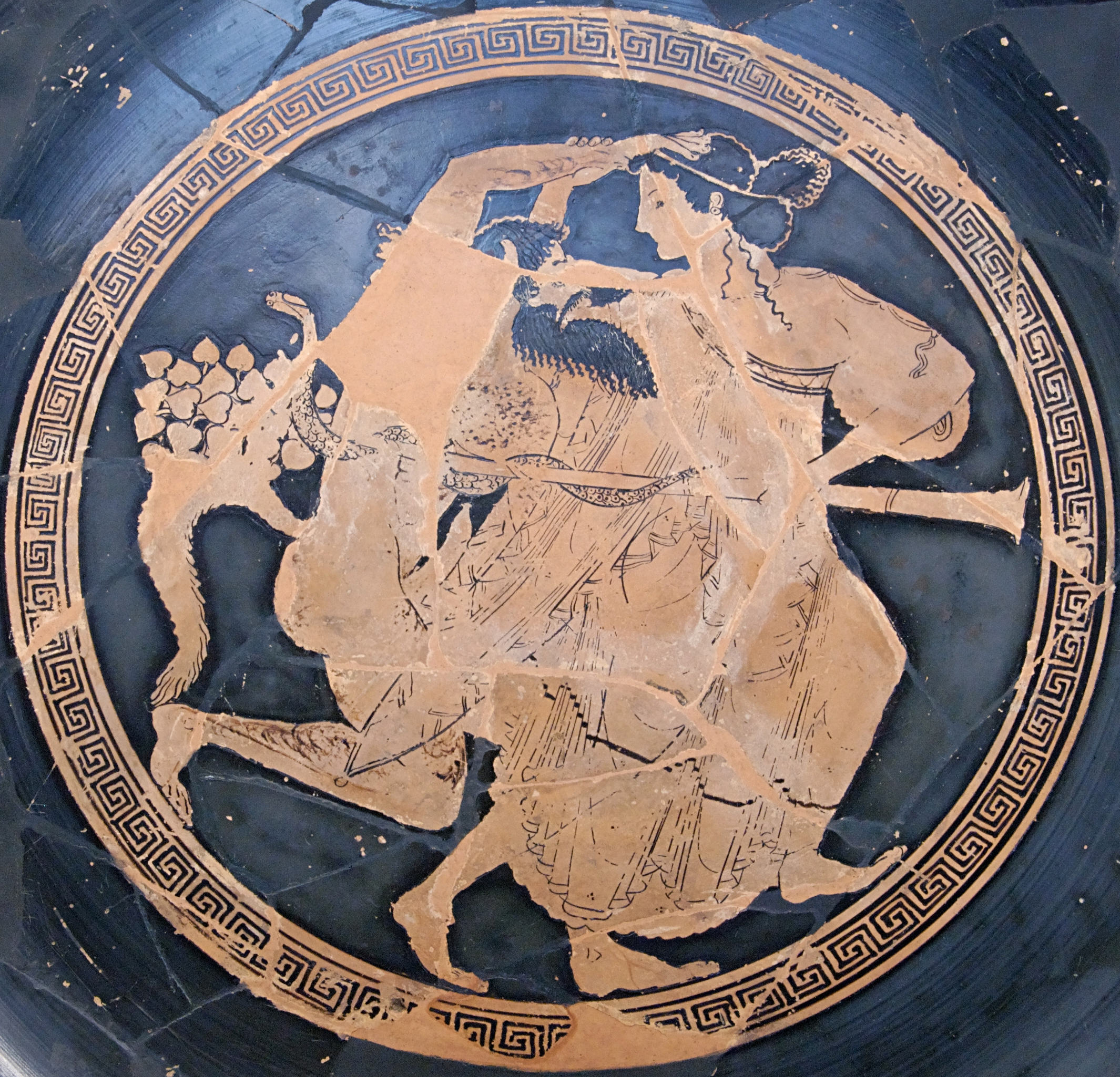 Silenus and maenad, tondo of a red-figure Attic cup, ca. 510 BC–500 BC.